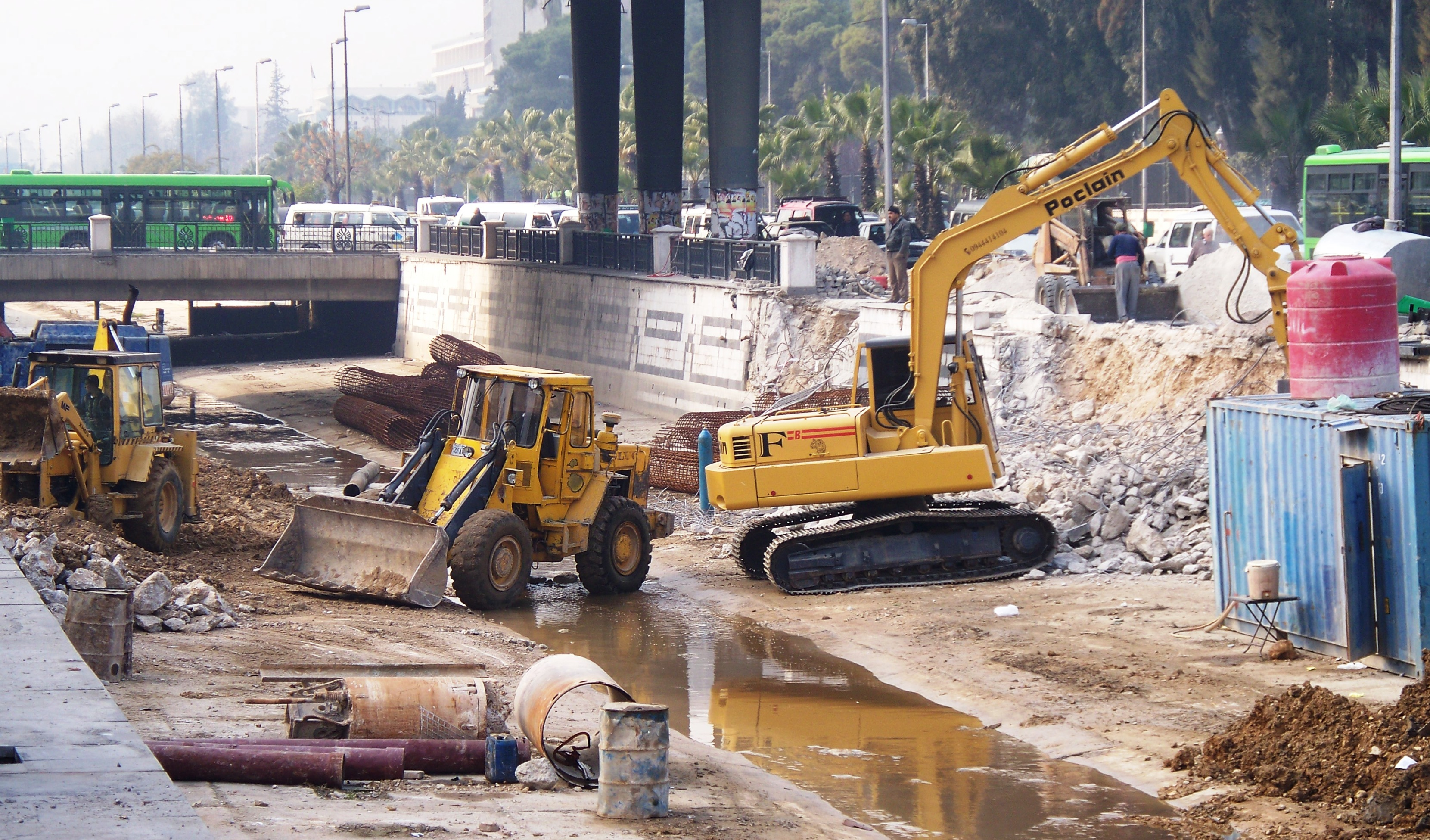 A Volvo loader, a Poclain and a MF backhoe loader at a construction site in Damascus.